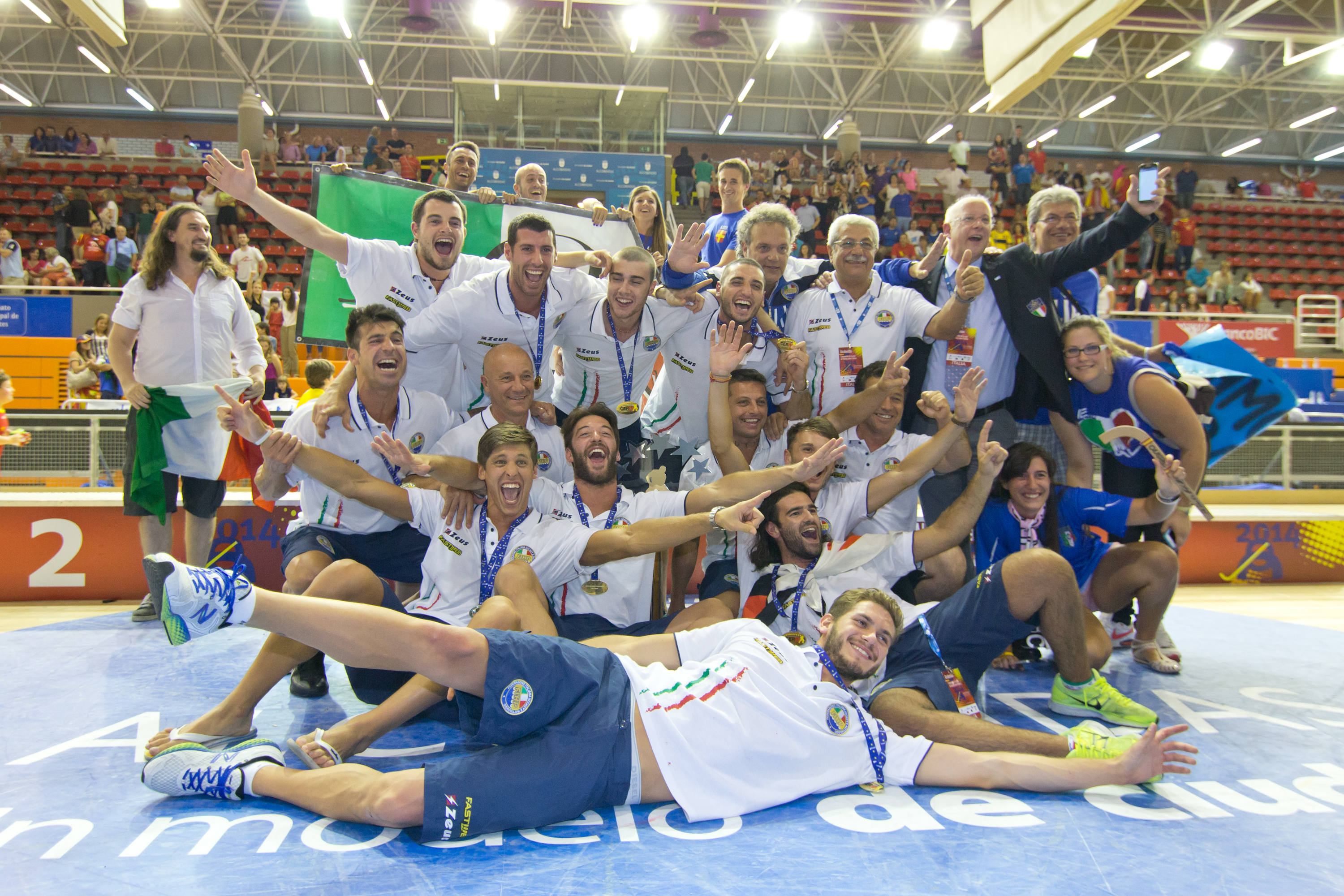 Italy national roller hockey team, winner at the 2014 CERH Championship in Alcobendas, Spain.